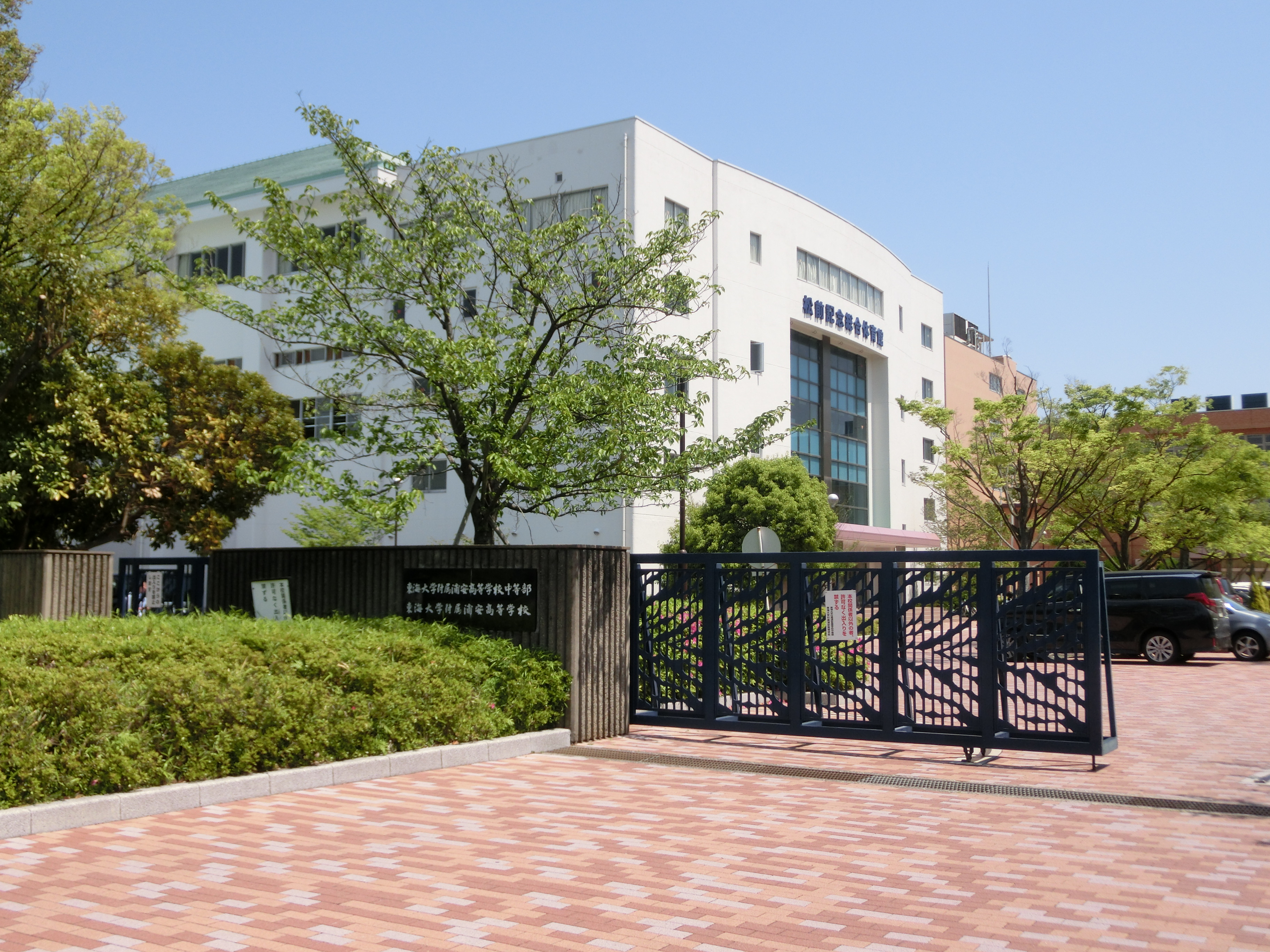 Tokai University Urayasu Junior & Senior High School